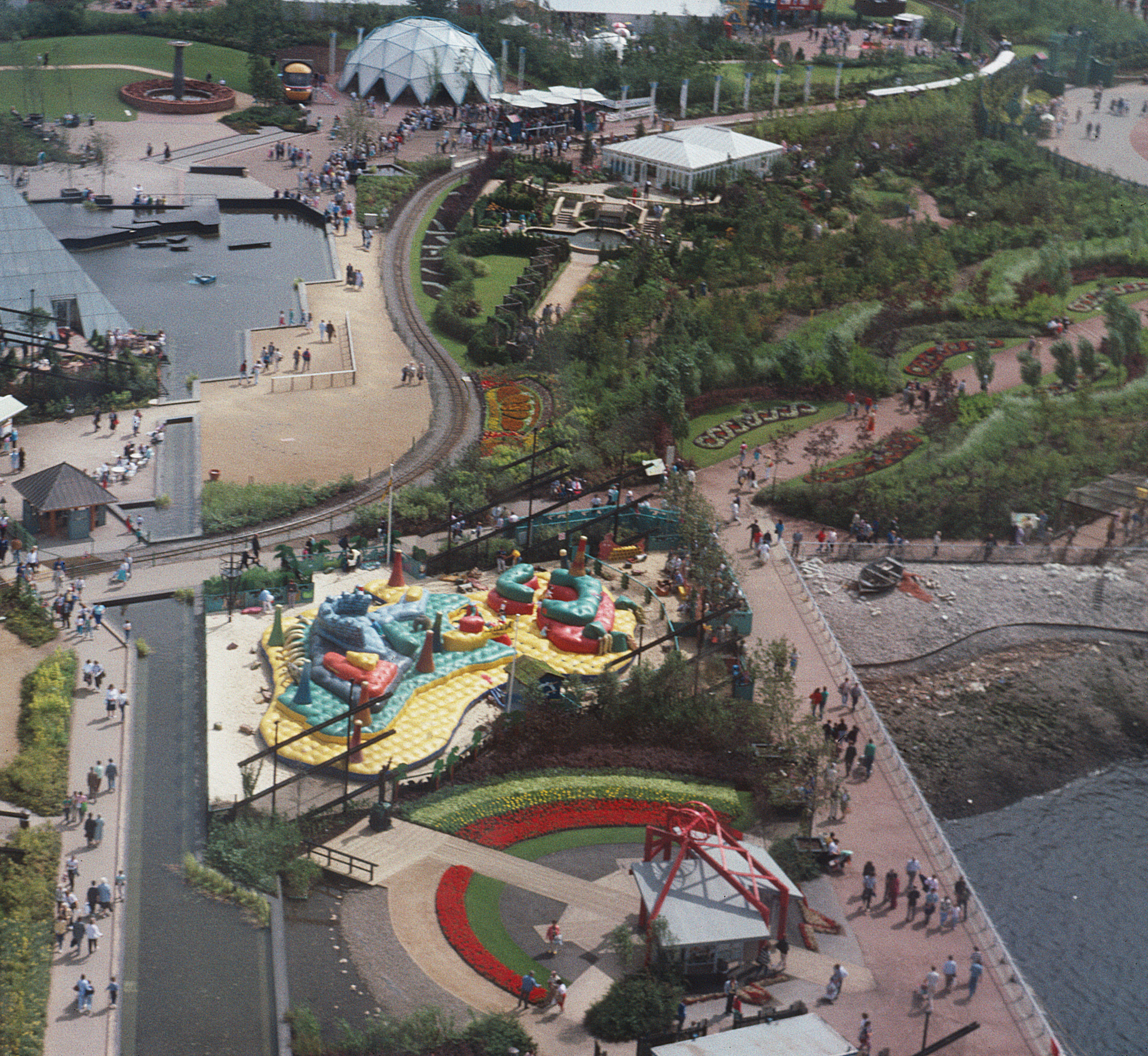 Glasgow Garden Festival, another overhead view